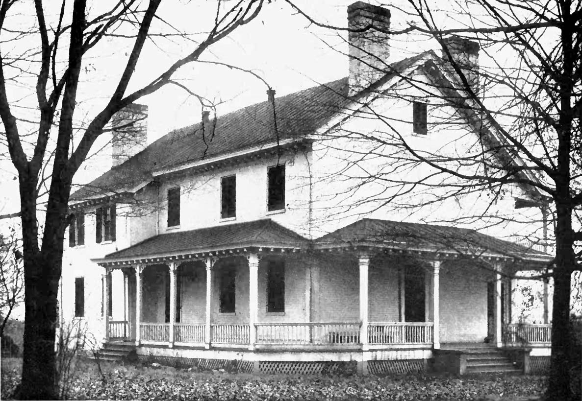 Photograph of the home of President of the United States Zacharay Taylor